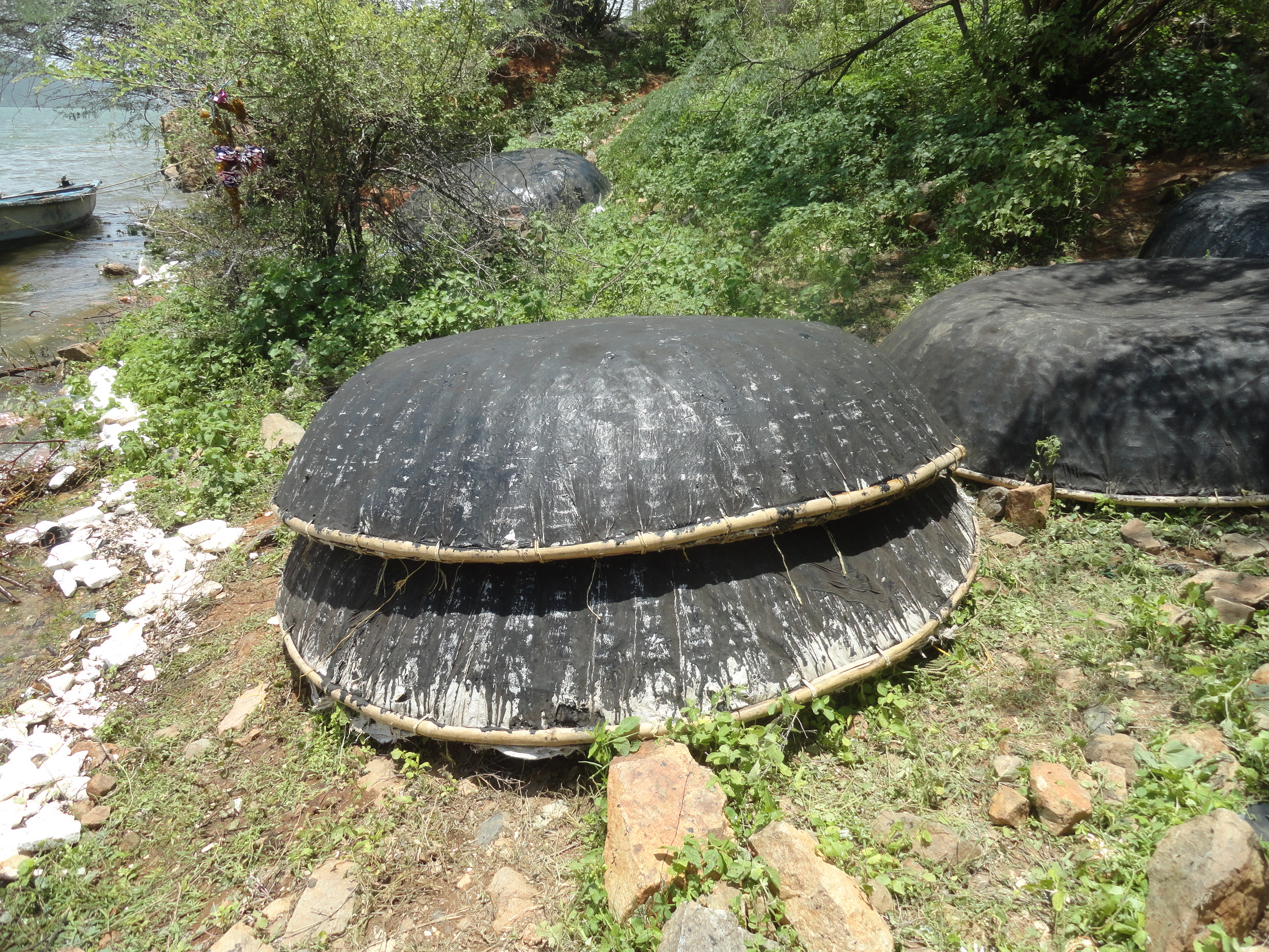 గట్టున బోర్లించిన బోట్లు